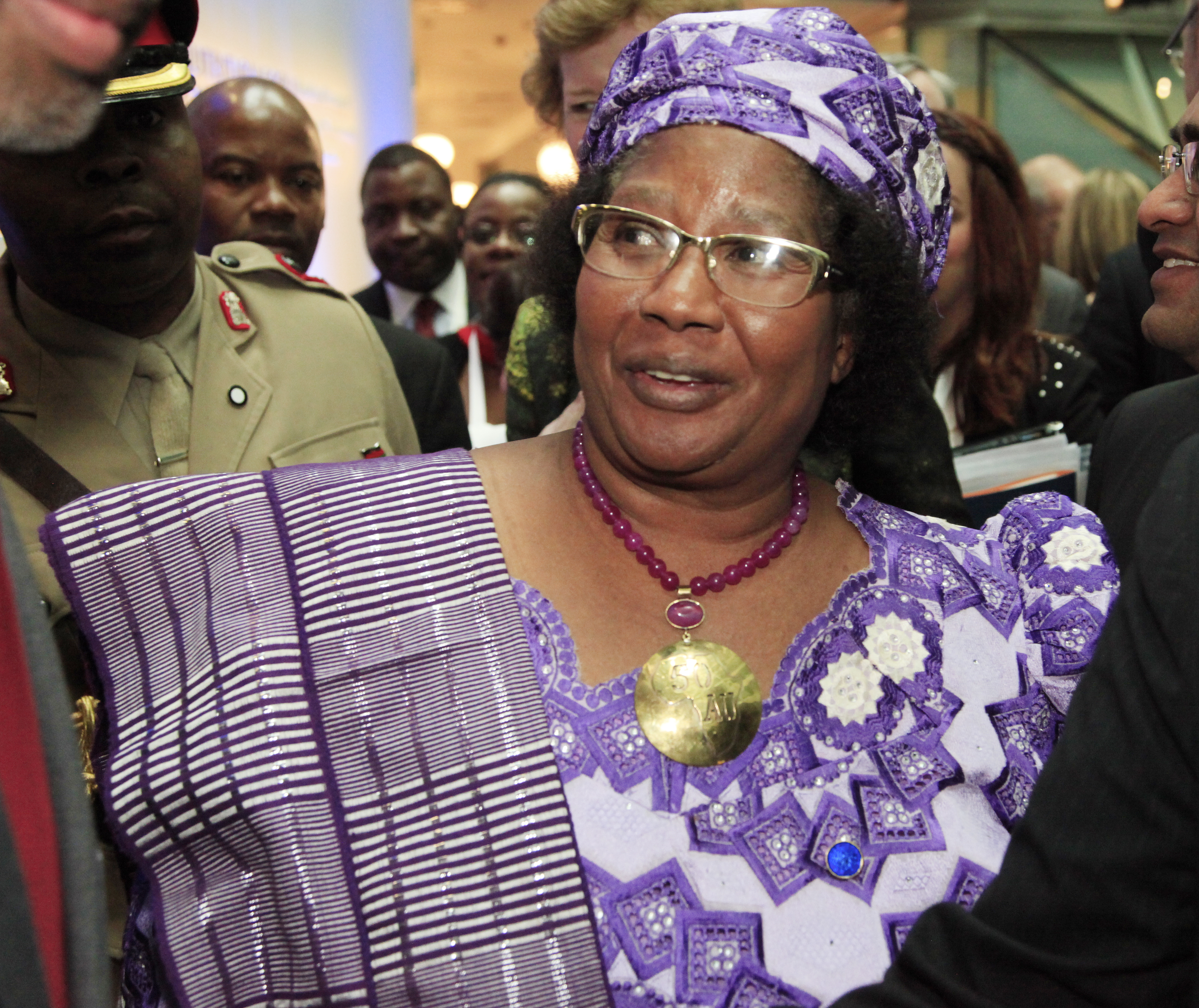 Malawi president Joyce Banda at the Nutrition for Growth conference in London, June 8, 2013.